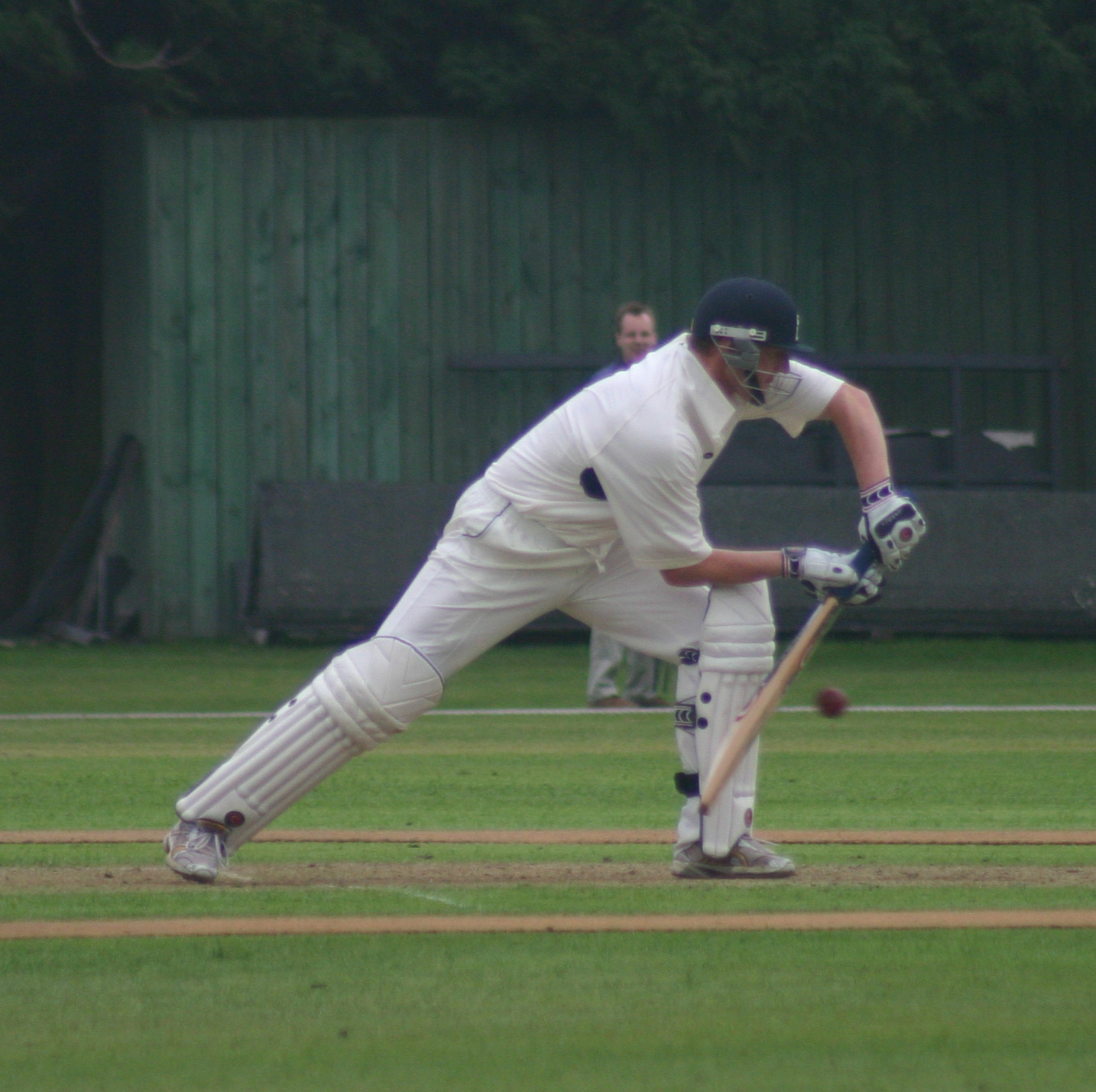 Dougie Brown batting for Warwickshire against Cambridge UCCE, at Fenner's cricket ground in Cambridge, en:15 April, en:2006. Photograph taken by Stephen Turner and released under the GFDL.